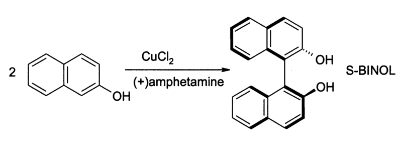 CuCl2 naphthol coupling